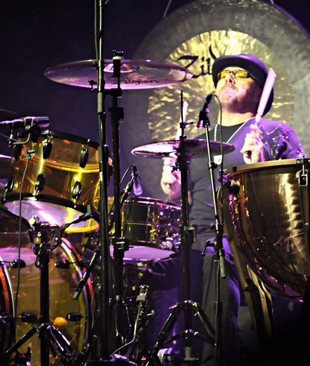 A cropped photograph of Jason Bonham drumming taken in 2010